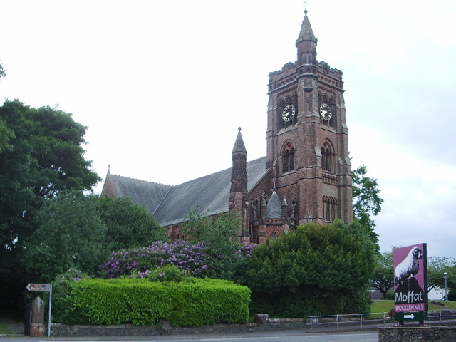 St Andrew's Church of Scotland